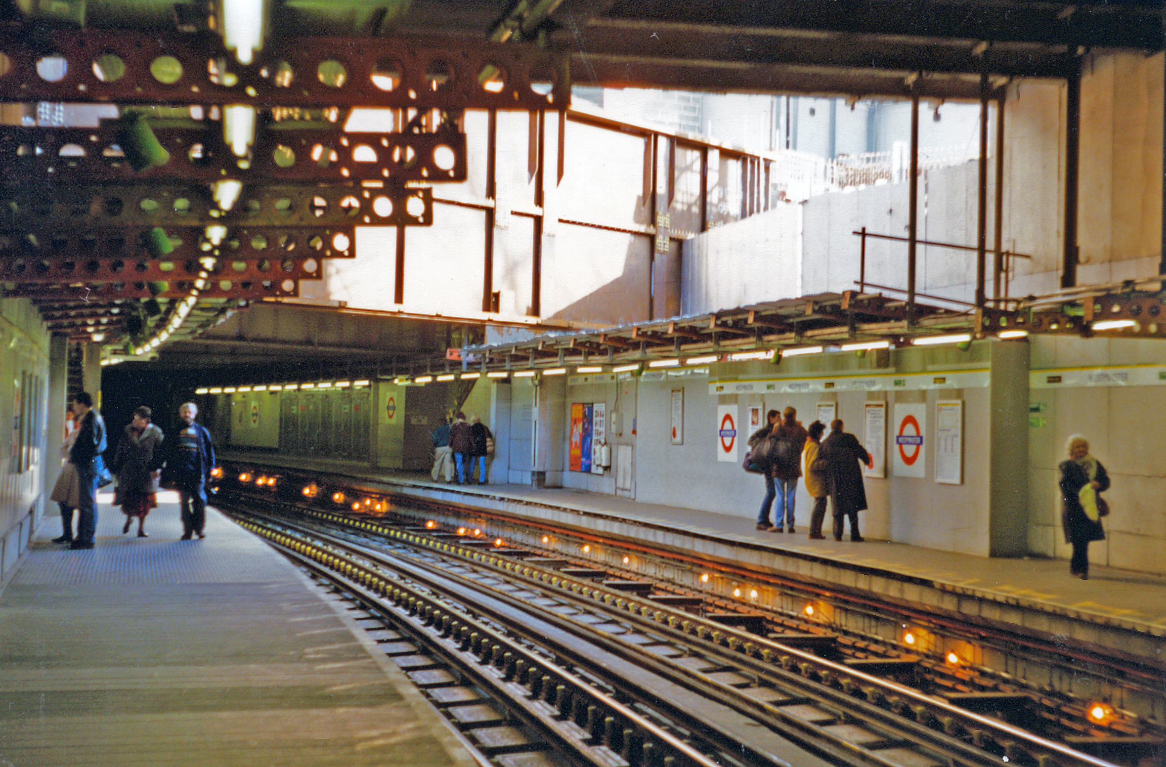 Westminster Station, District Line 1996. View NE, towards Embankment, Mansion House and East London: LUL District and Circle Lines. Reconstruction is in progress for connection with the Jubilee Line Extension, which was completed 22/12/99.